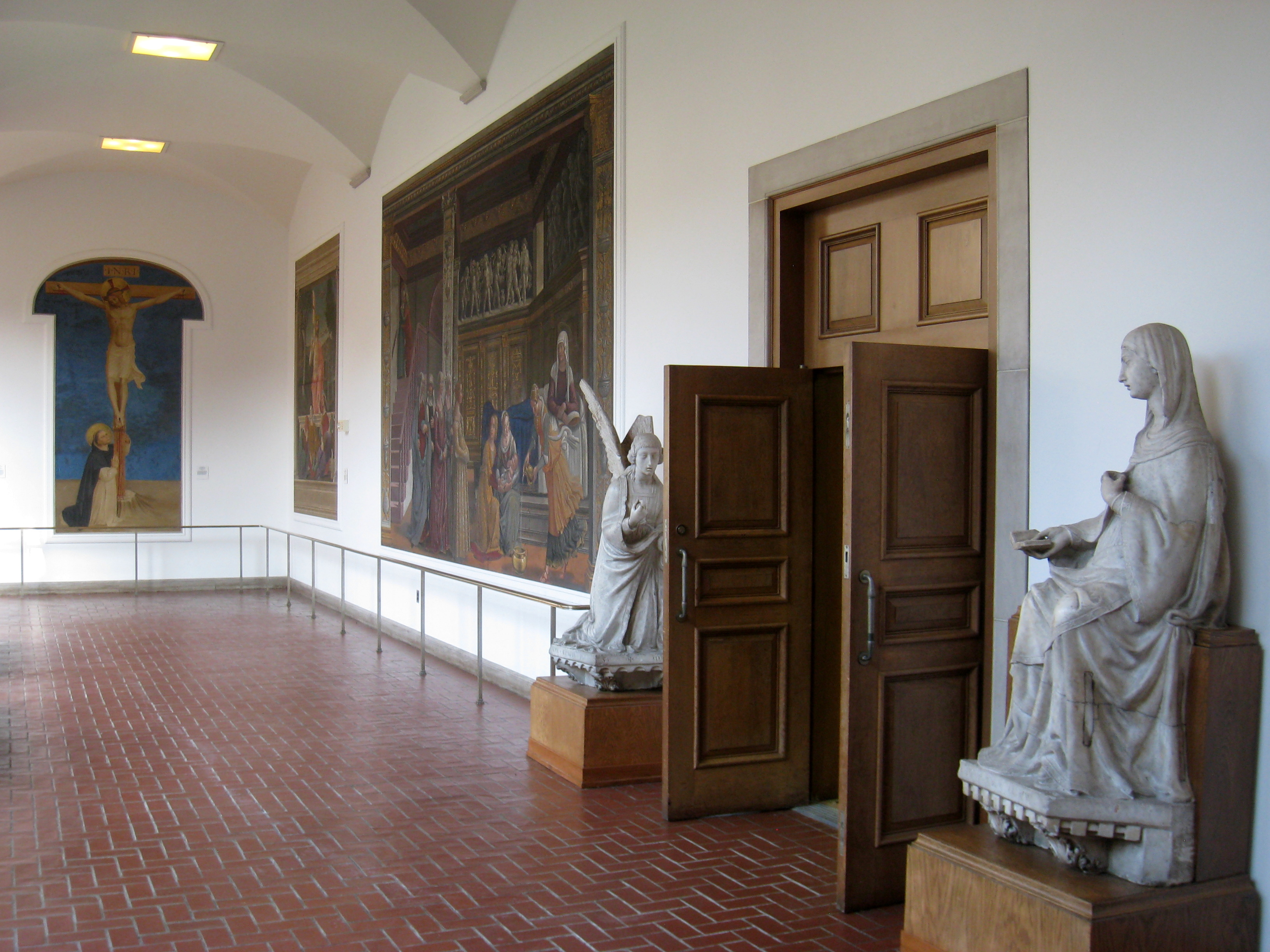 Frick Fine Arts Building, University of Pittsburgh, Pittsburgh, Pennsylvania, USA.